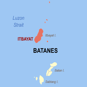 Map of Batanes showing the location of Itbayat